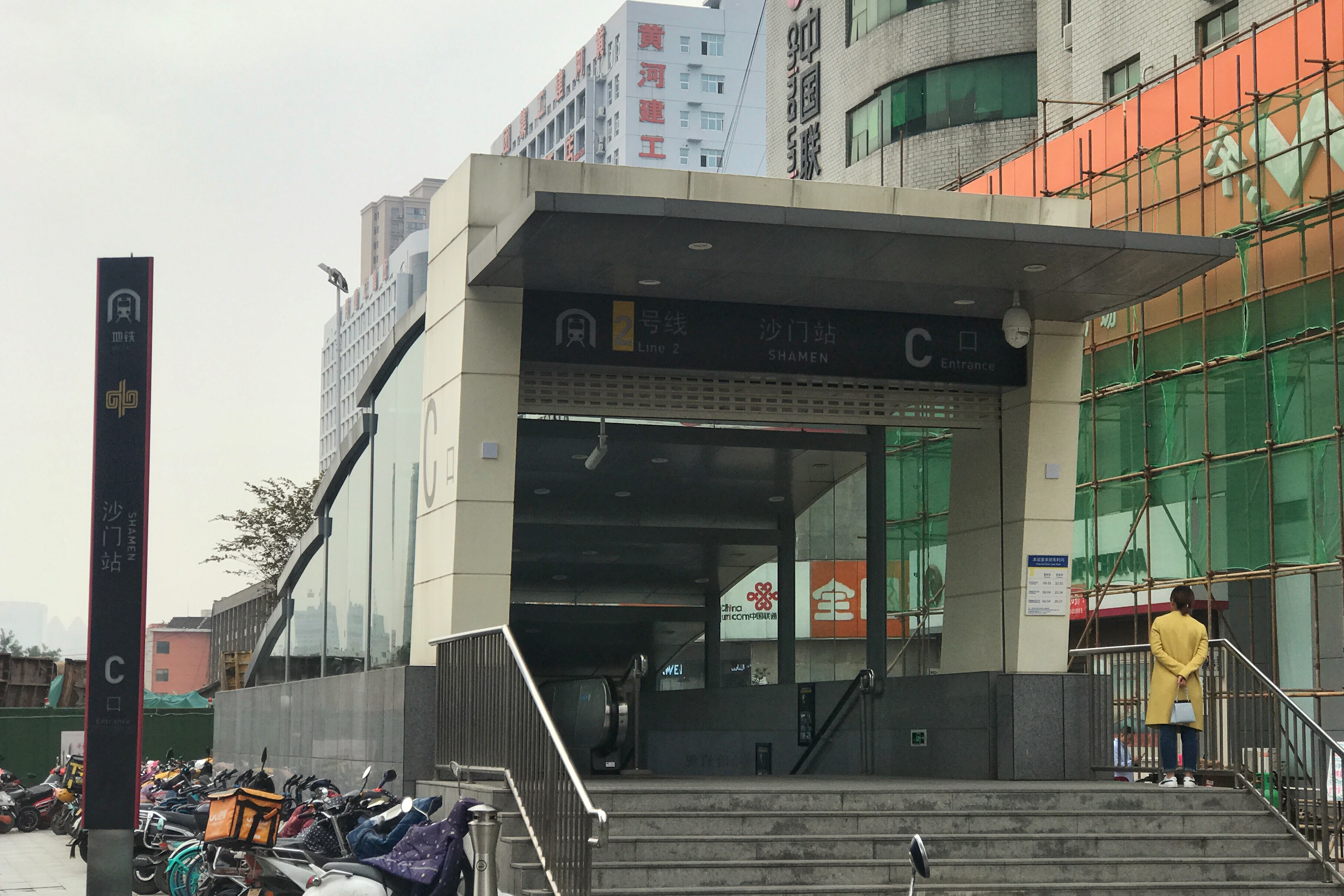 Entrance C of Shamen Station